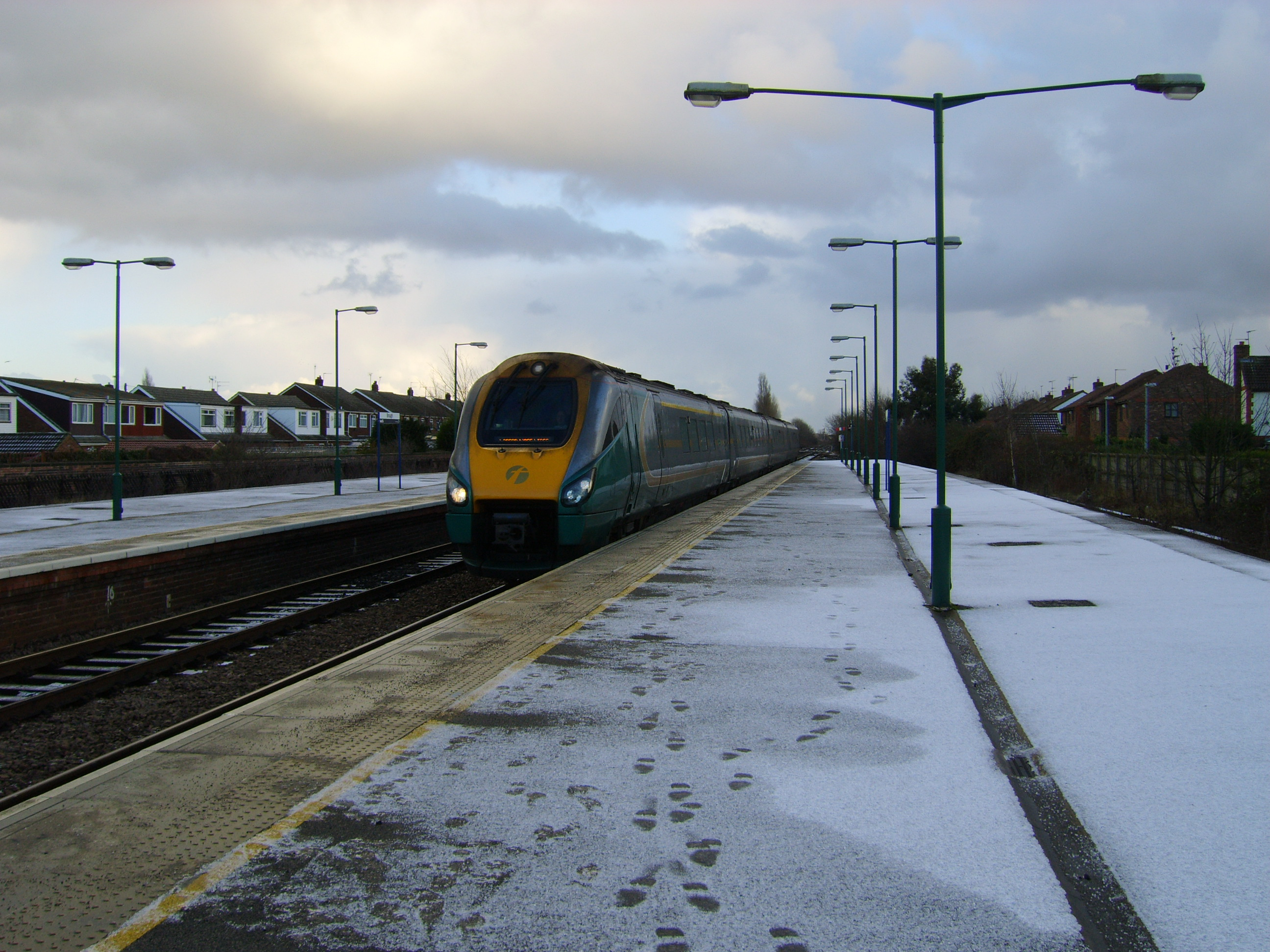 Hull Trains Class 222 Pioneer arriving in Brough Rail Station, Brough, East Riding of Yorkshire, England.